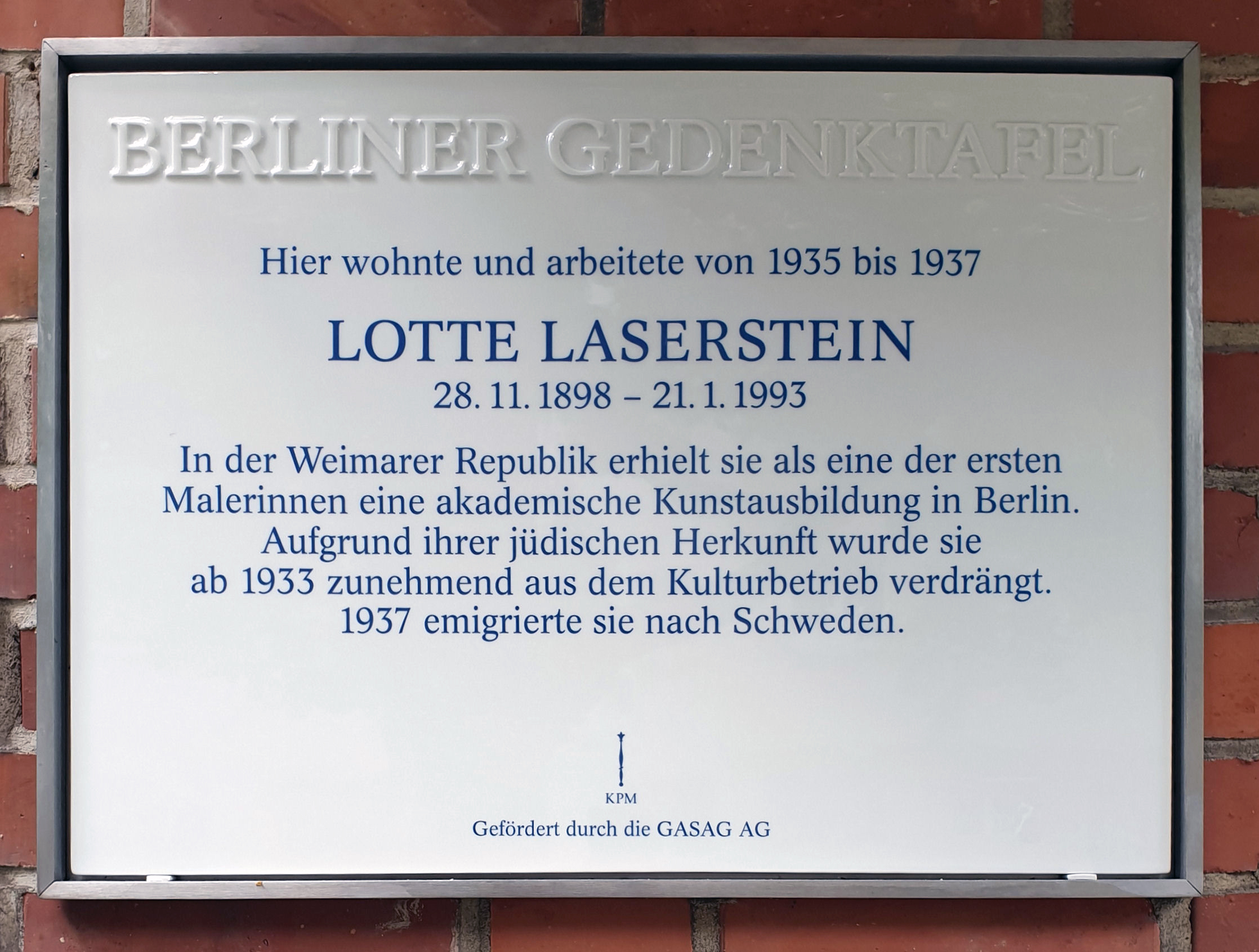 Berlin memorial plaque, Lotte Laserstein, Jenaer Straße 3, Berlin-Wilmersdorf, Germany